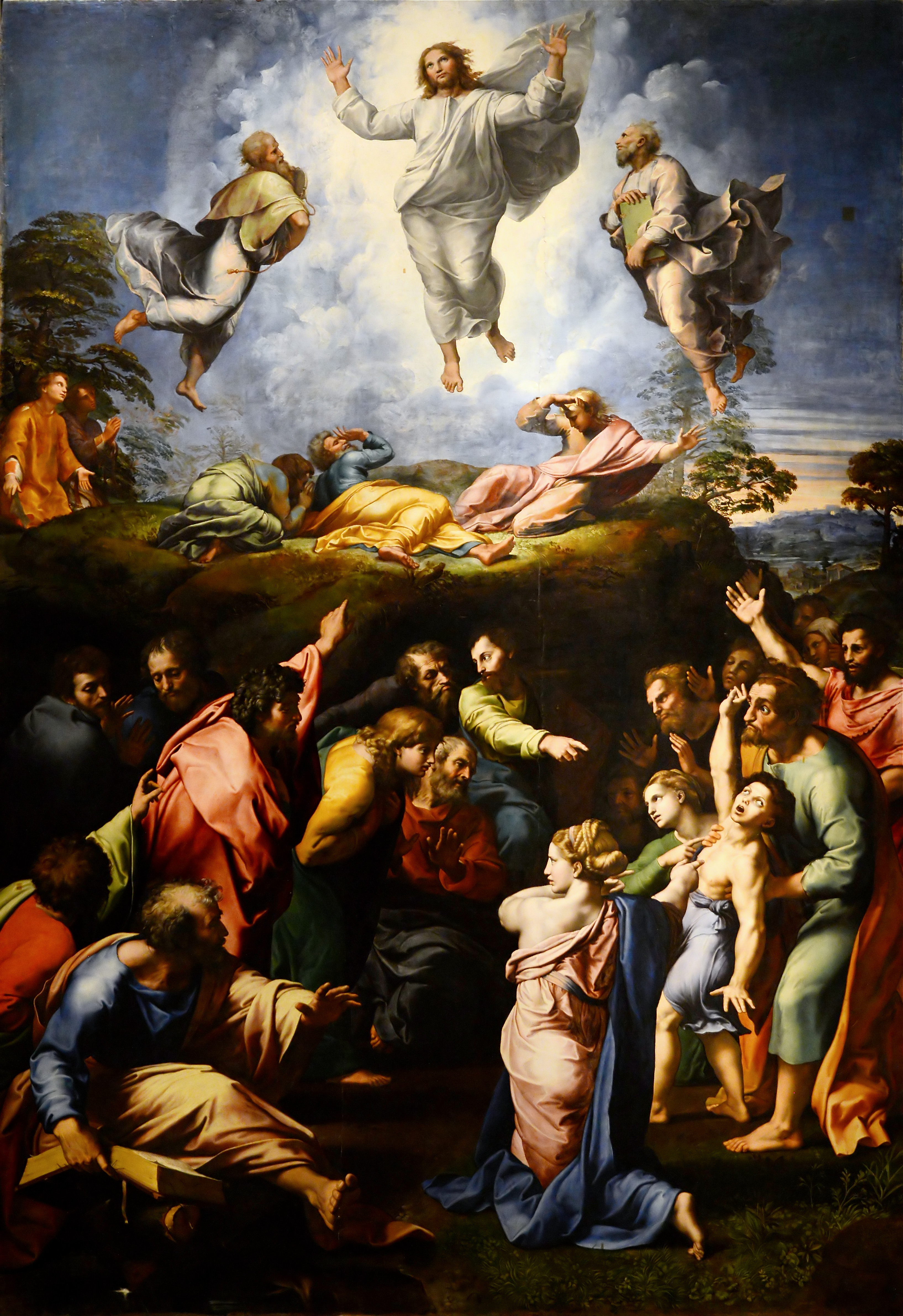 The Transfiguration, by Raphael (Pinacoteca of the Vatican Museums)